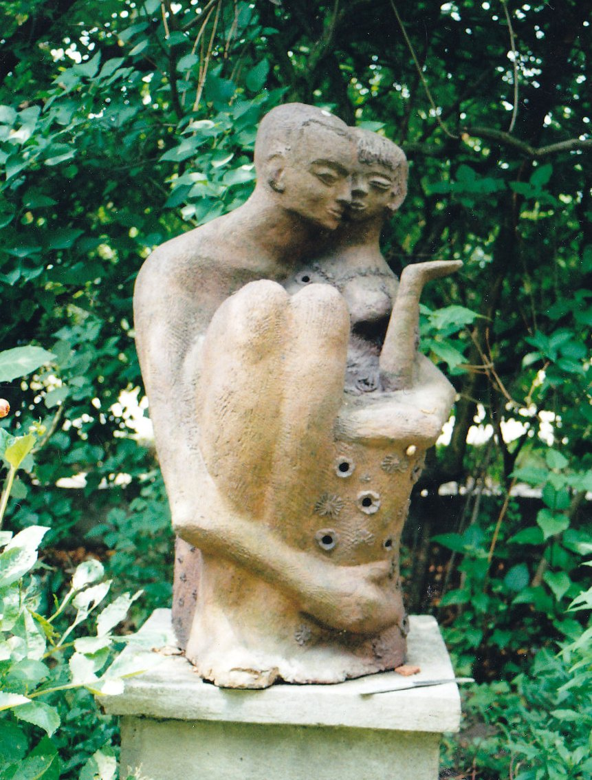 A sculpture by Katarzyna Piskorska - a couple